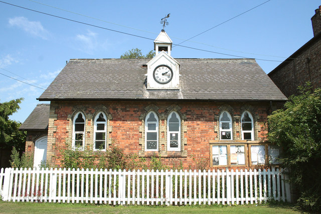 Parish Council Meeting Rooms, Flaxton, North Yorkshire, formerly a school